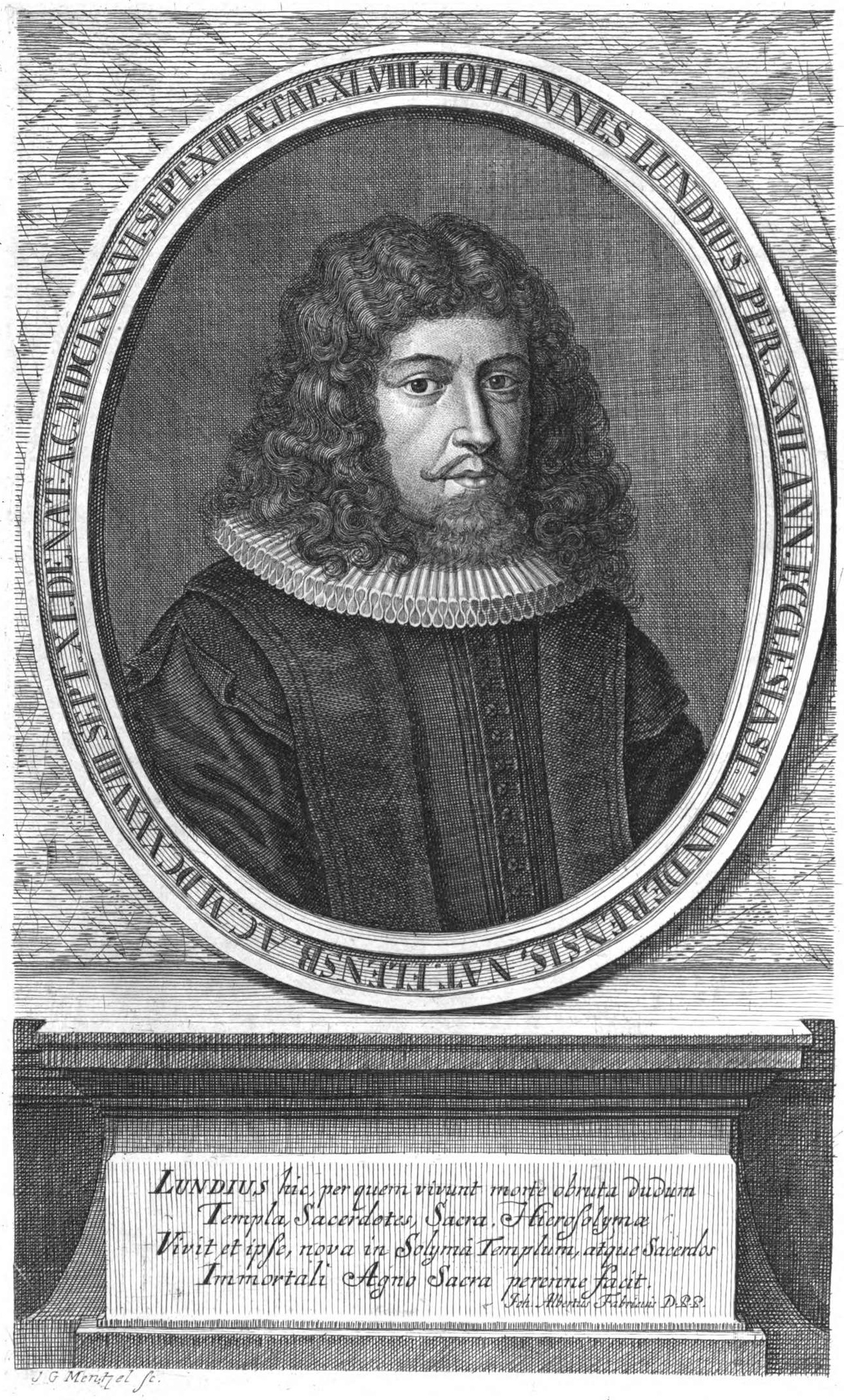 Portrait von Johann Lund(1638-1686), protestant Minister in Tønder